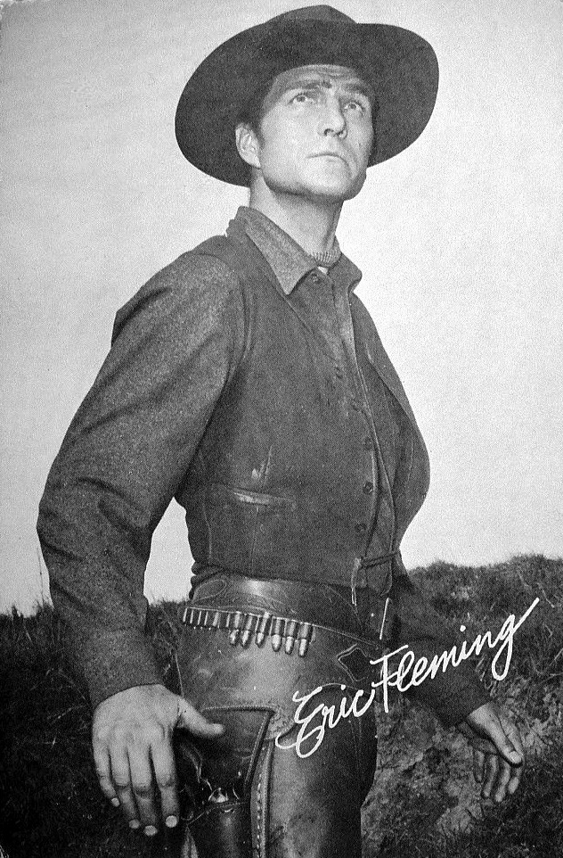 Photo postcard of Eric Fleming from the television series Rawhide.